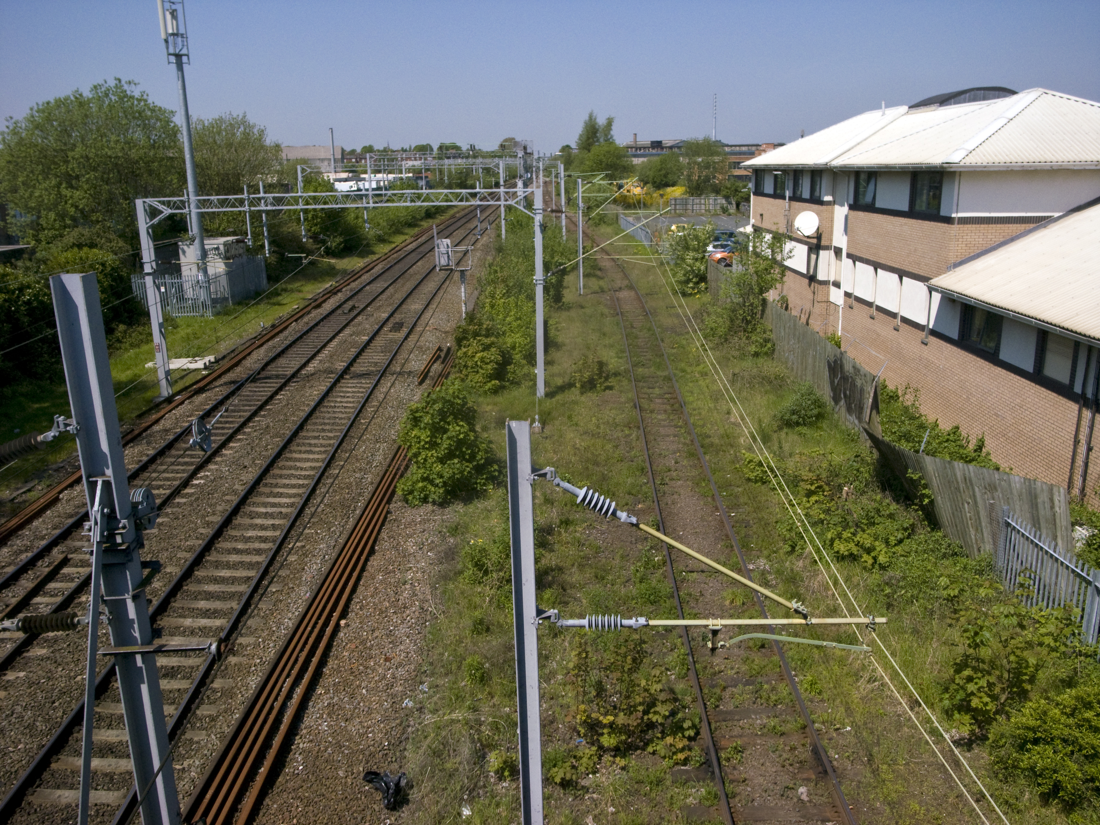 Site of Monument Lane railway station on the Stour Valley Line in Birmingham, England. It was the nearest station to Birmingham New Street.